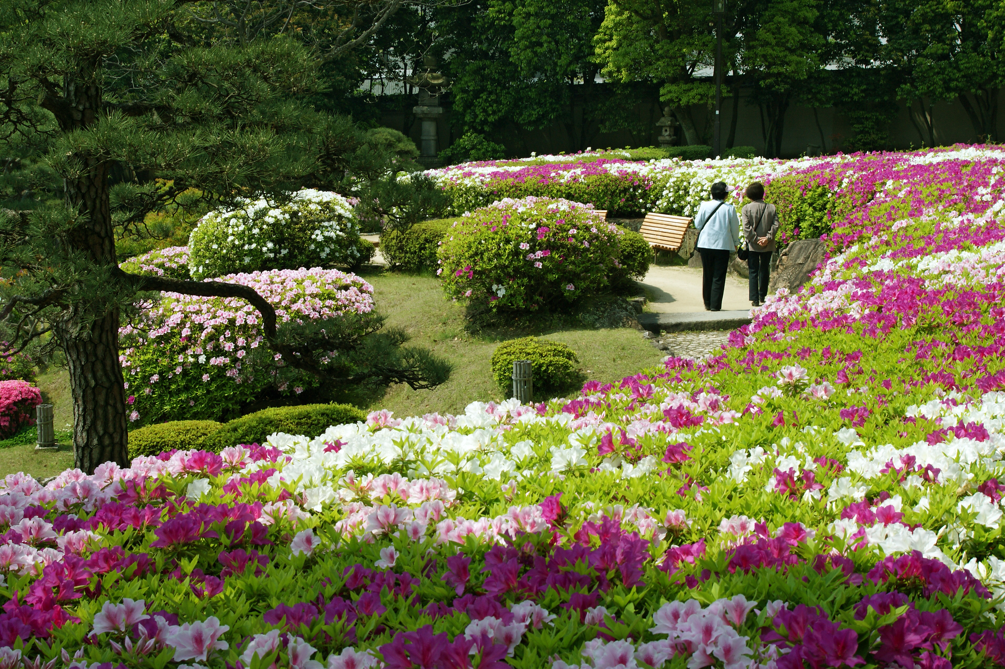 Sorakuen in Kobe, Hyogo prefecture, Japan